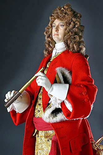 Historical figure of King John Churchill, 1st Duke of Marlborough